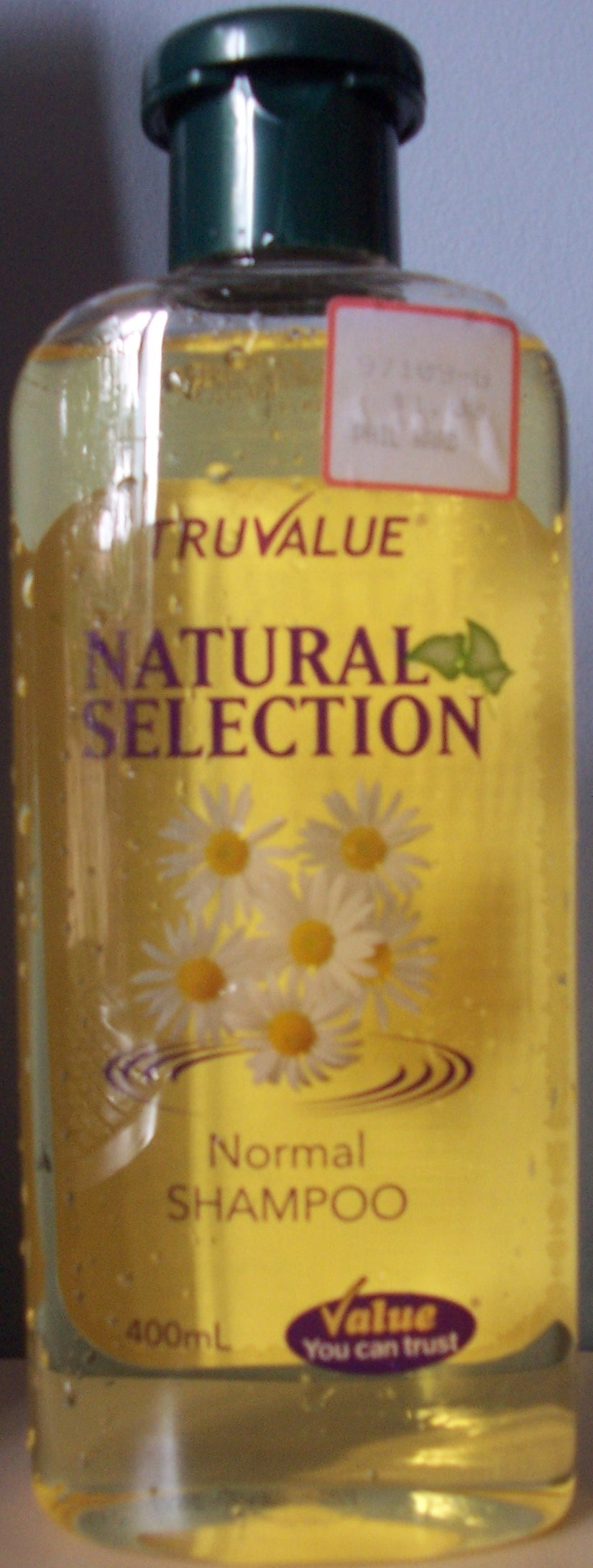 Natural Selection Shampoo